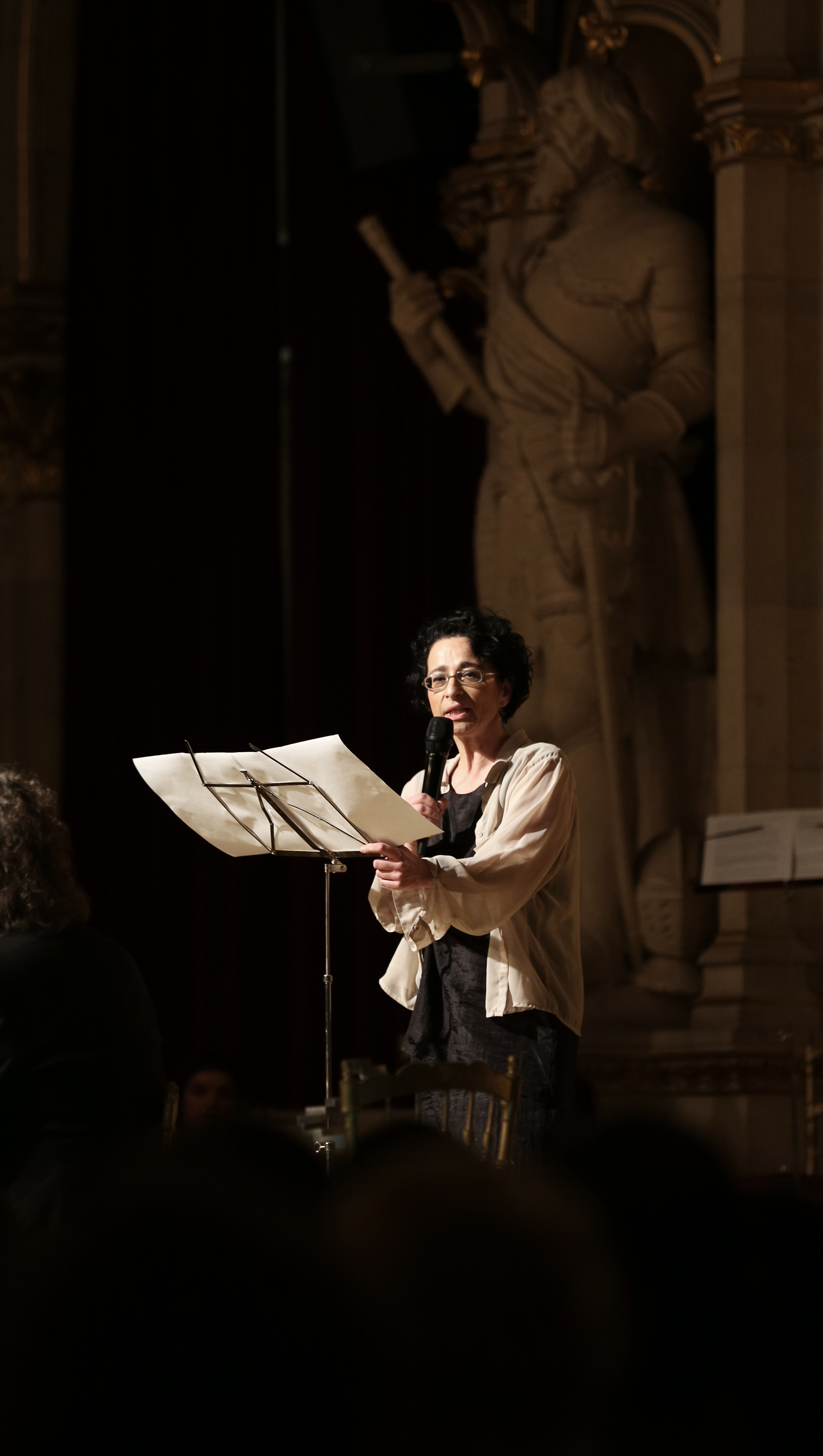 Isolde Charim at the Austrian Film Awards 2015 at Rathaus, Vienna,Austria.